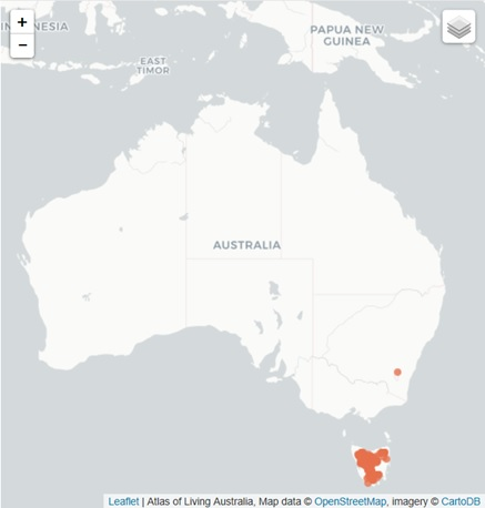 Distribution of Rubus gunnianus, map from the Atlas of Living Australia, 2018